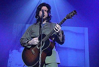 Ignacio Peña performing Phono/Gráphico @ Centro de Bellas Artes, Guaynabo, PR on July 27, 2003